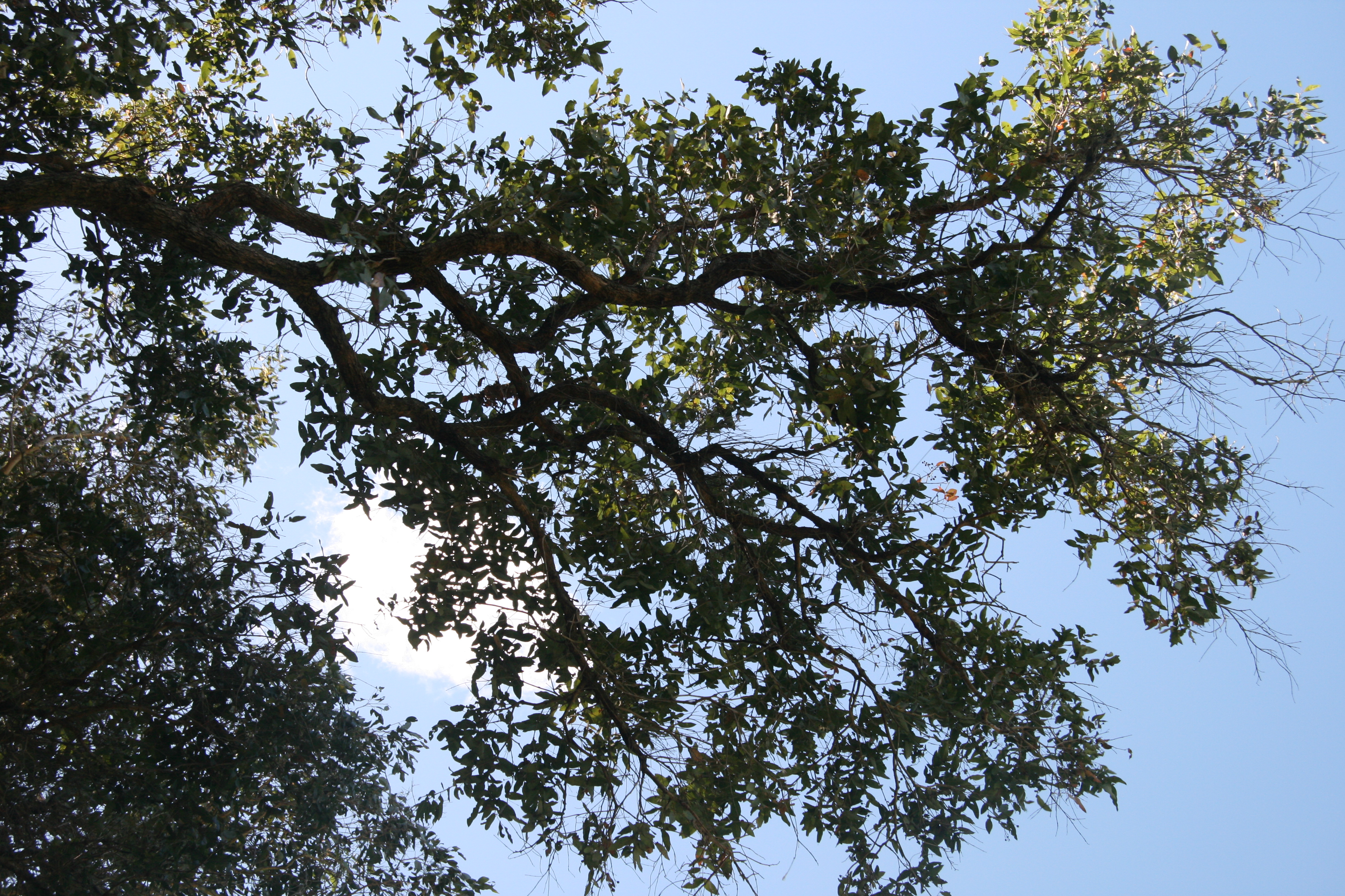 Angophora subvelutina foliage, at Mt Annan Botanic Gardens (where it grows locally)